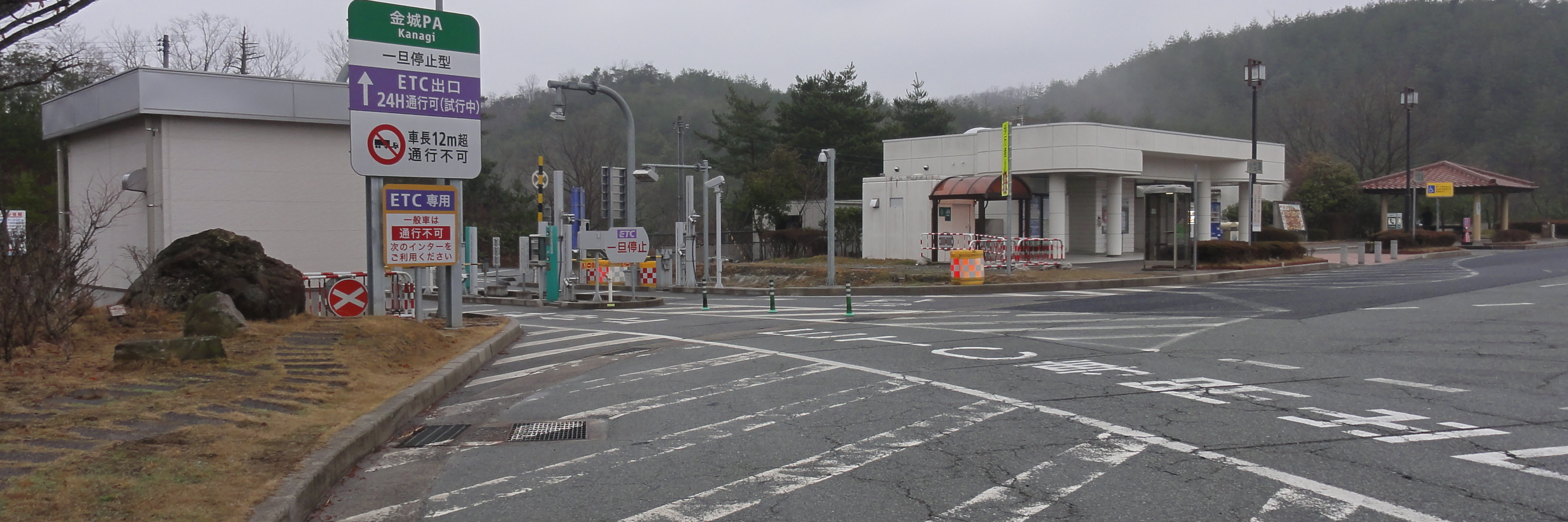 Kanagi Parking Area,Shimane prefecture, Japan